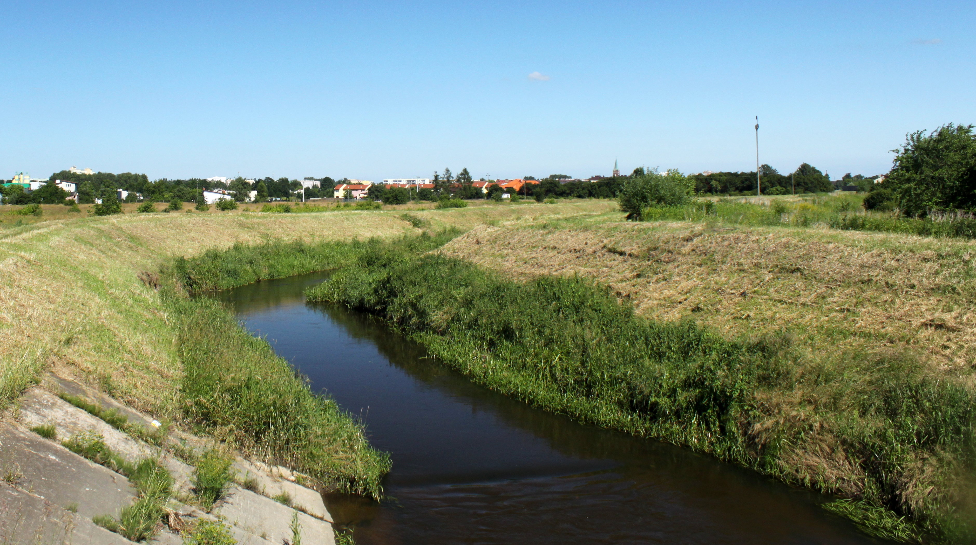 Długa river in Marki, Poland